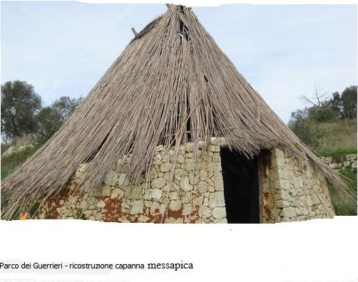 messapic house